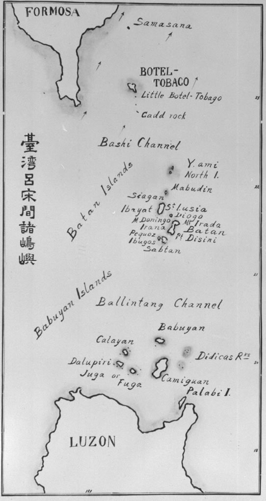 Old map of the Luzon Strait (not labeled), including the Bashi Channel, between Orchid Island (Botel Tobago on the map) of Taiwan and the Batan Islands of the Philippines. Names may be out of date. Japanese caption: "Islands between Taiwan and Luzon".